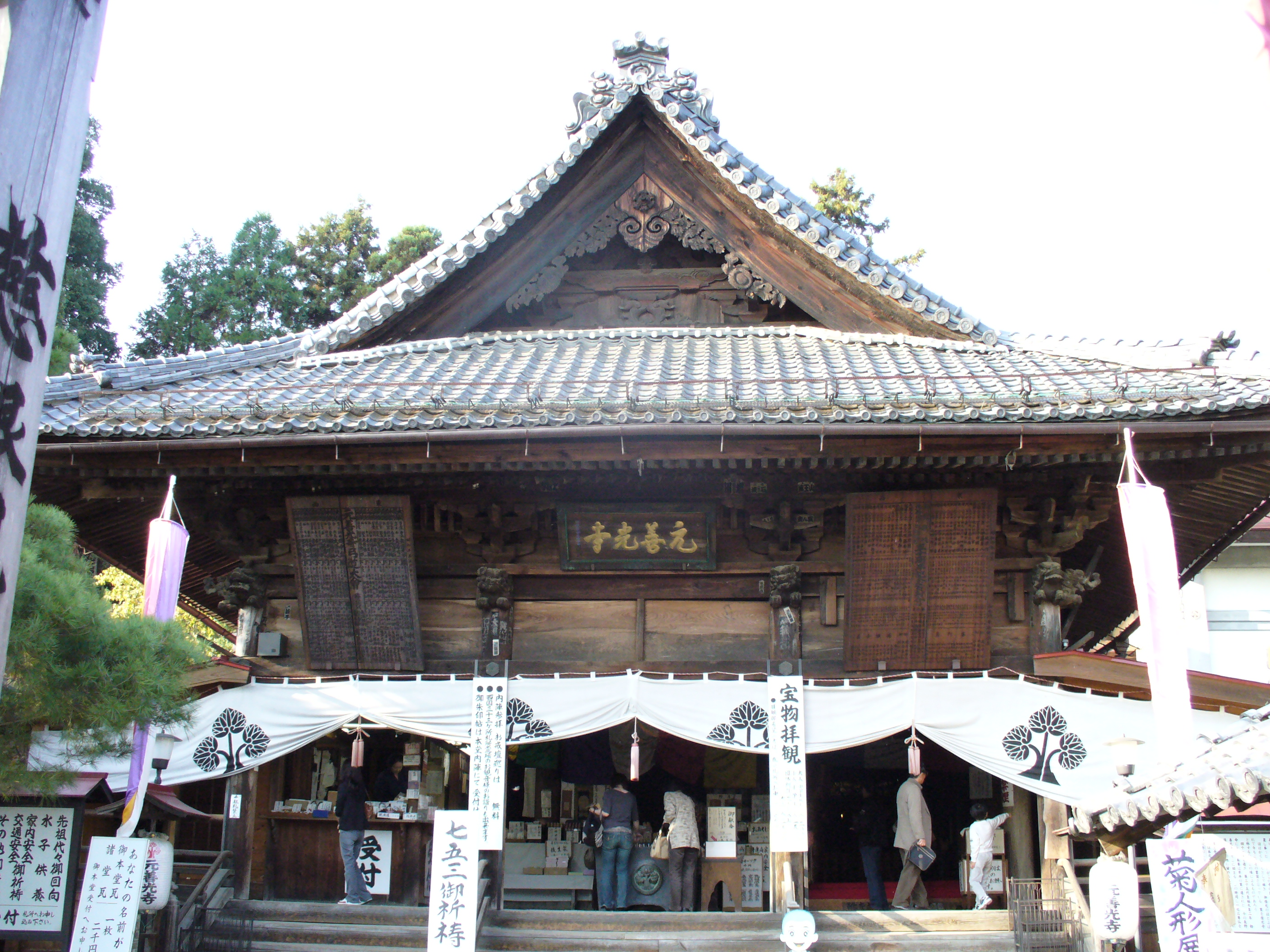 Motozenkouji hondou, taken in Iida city, Nagano, Japan.